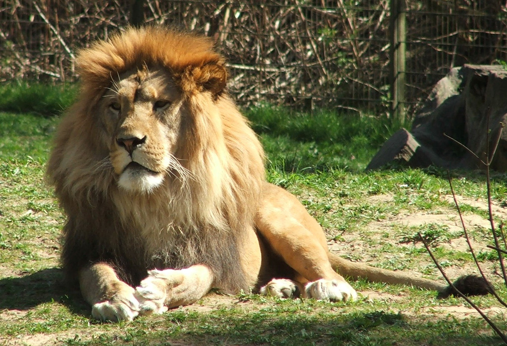 Lion - Rostock Zoo